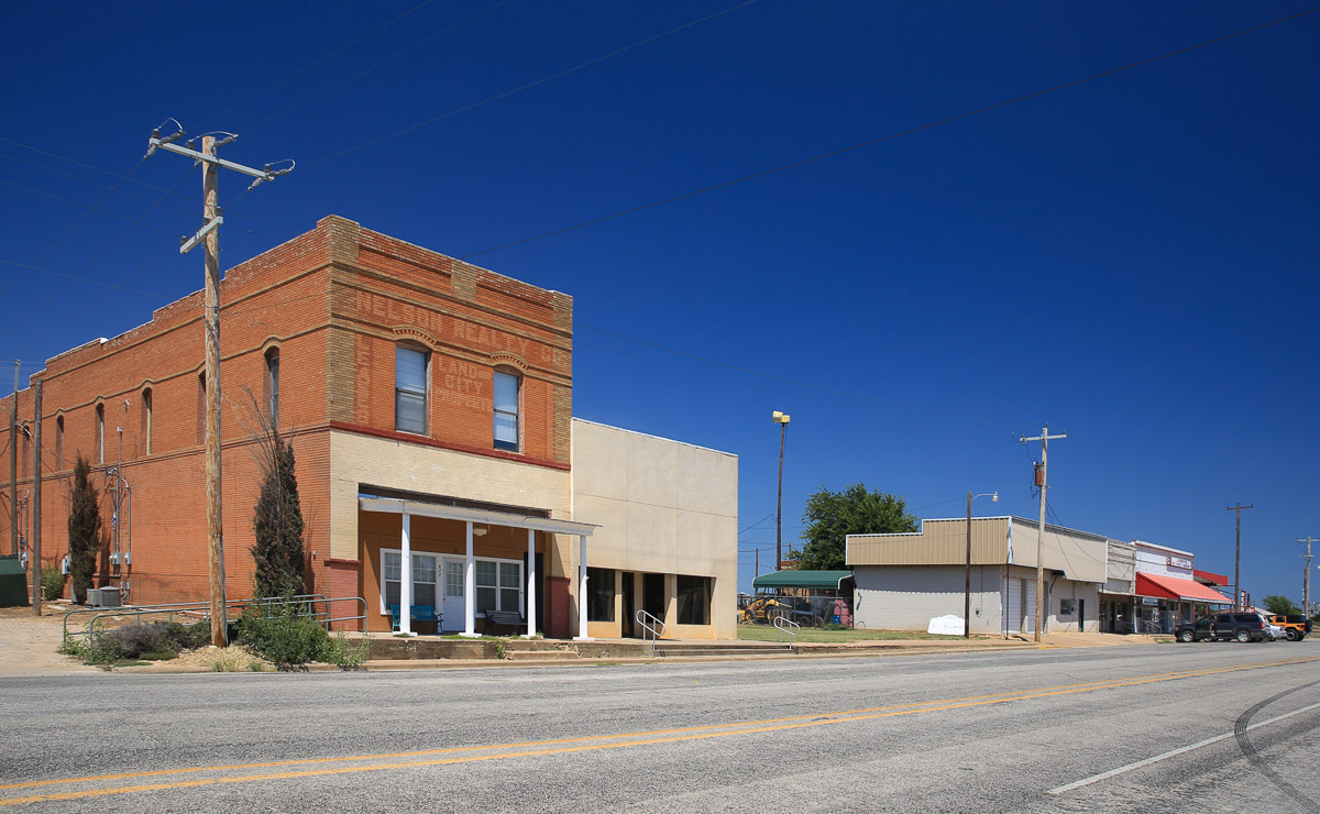 Buildings in Newcastle, Texas